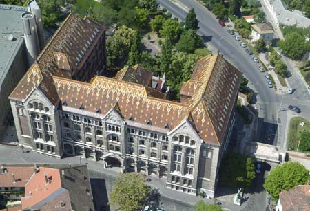 National Archives of Hungary, Buda castle, Budapest, Hungary, aerial photography